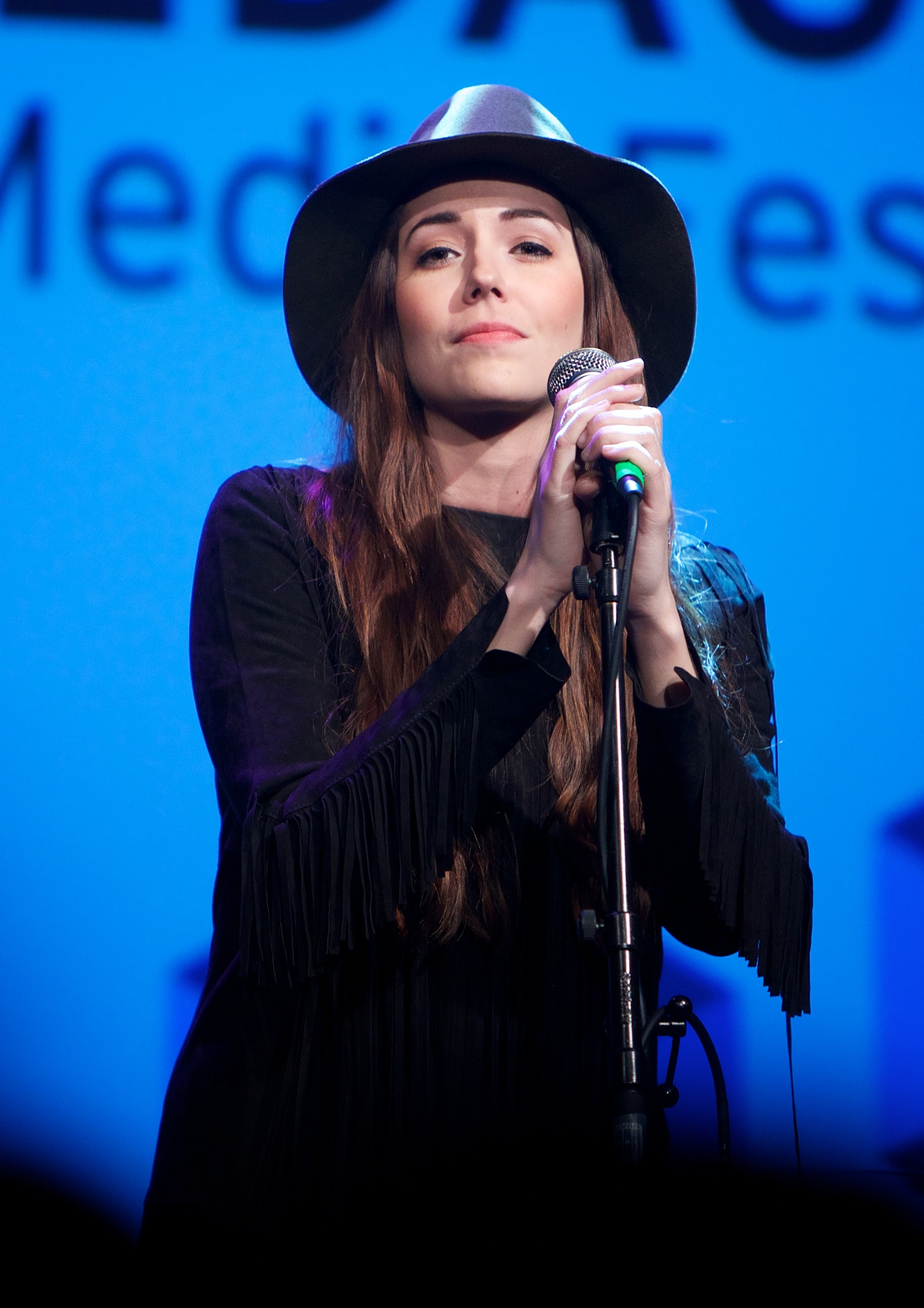 Marion Ravn at Nordiske Mediedager 2013